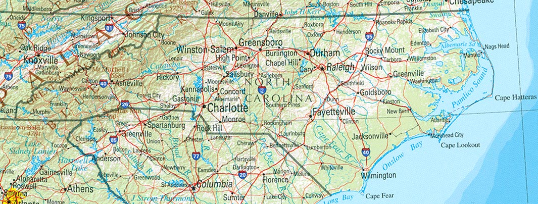 Shaded relief map with state boundaries, forest cover, place names, major highways. Portion of "The National Atlas of the United States of America. General Reference", compiled by U.S. Geological Survey 2001, printed 2002.